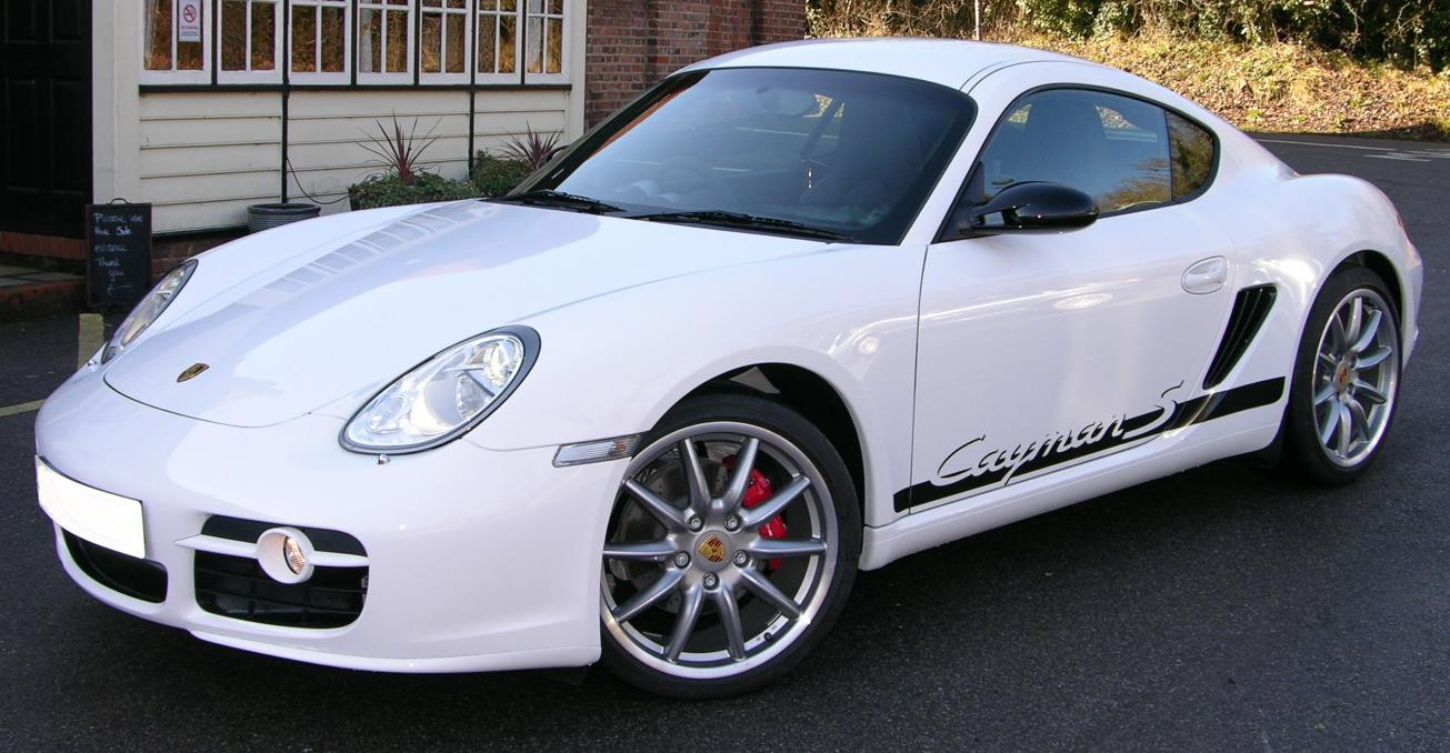 2009 Porsche Cayman S Sport Limited Edition